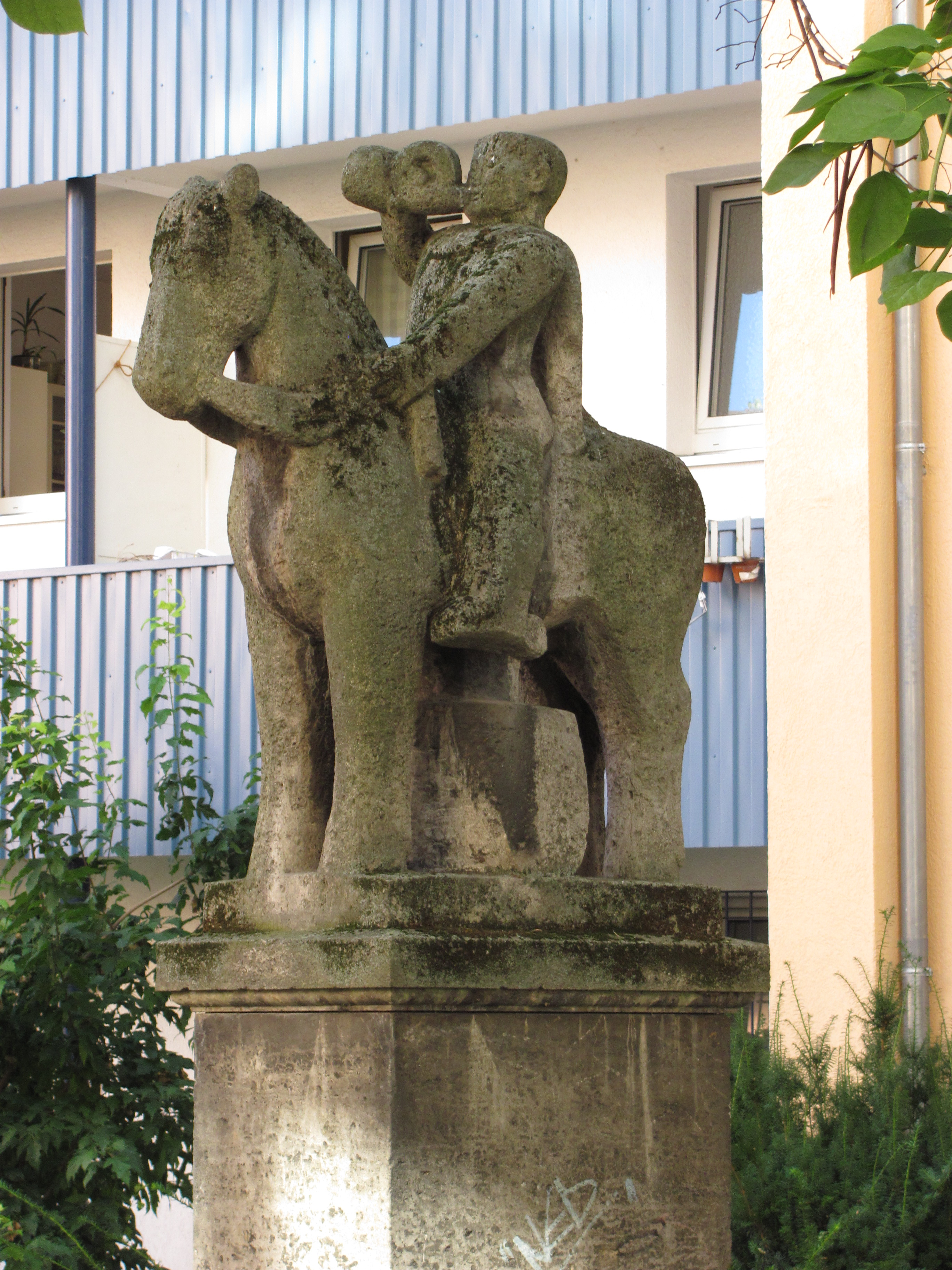 Postreiter-monument by Albrecht Glenz in Hainer Hof, Frankfurt (Main)